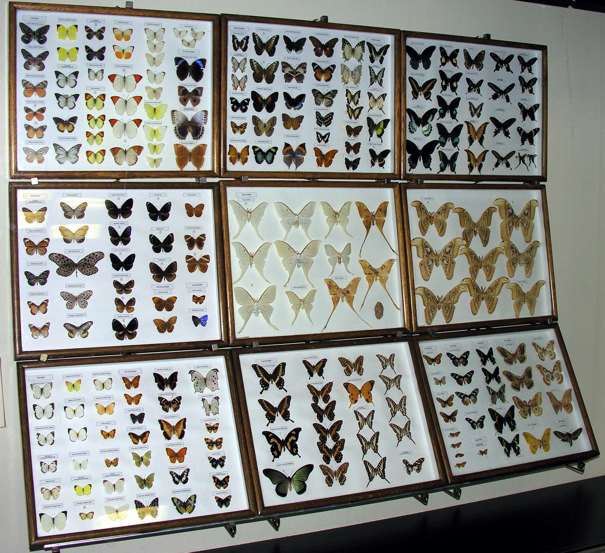 Collection on butterflies in Tadas Ivanauskas Zoological Museum, Kaunas.